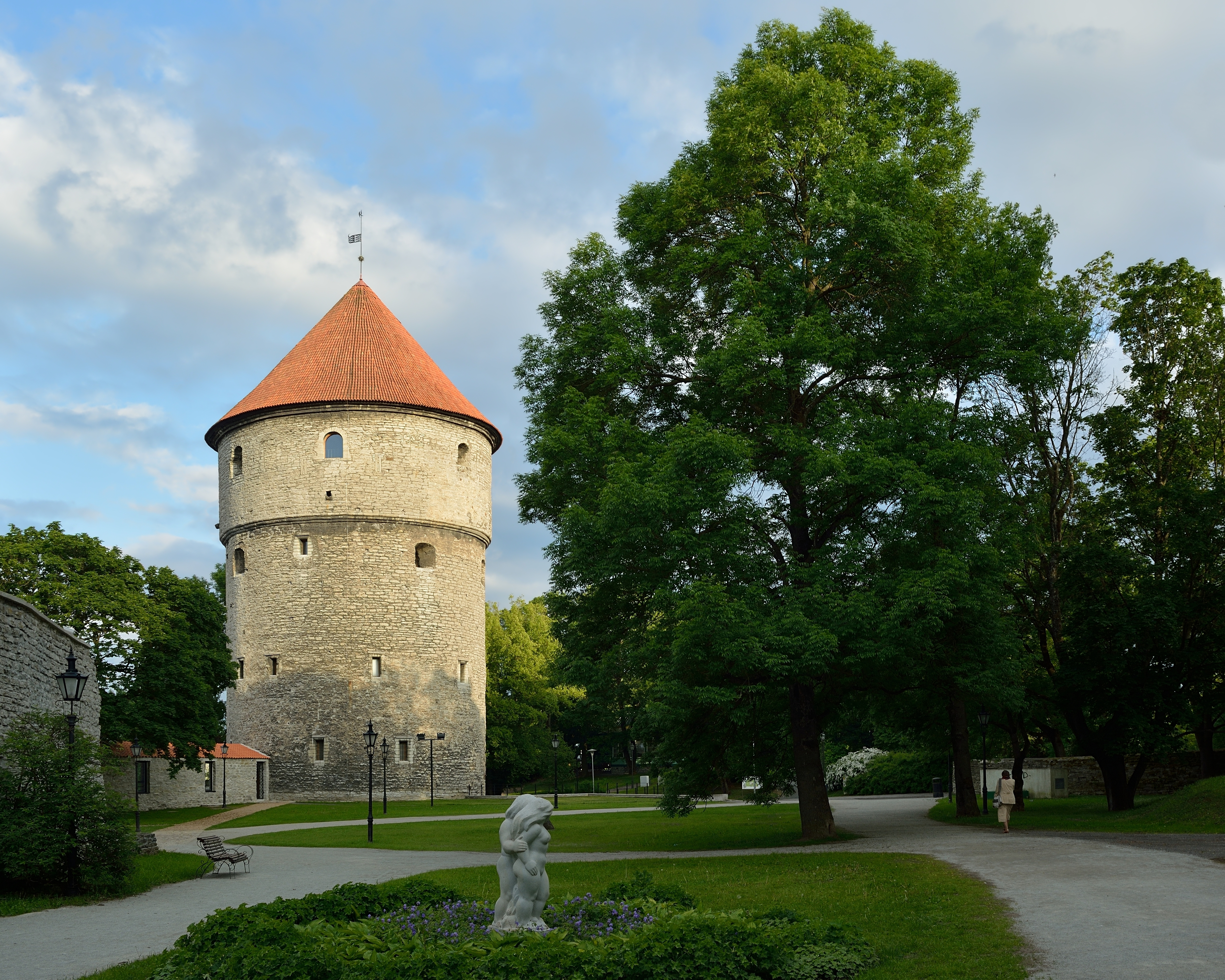 Kiek in de Kök – an artillery tower in Tallinn was built in 1475–1483.